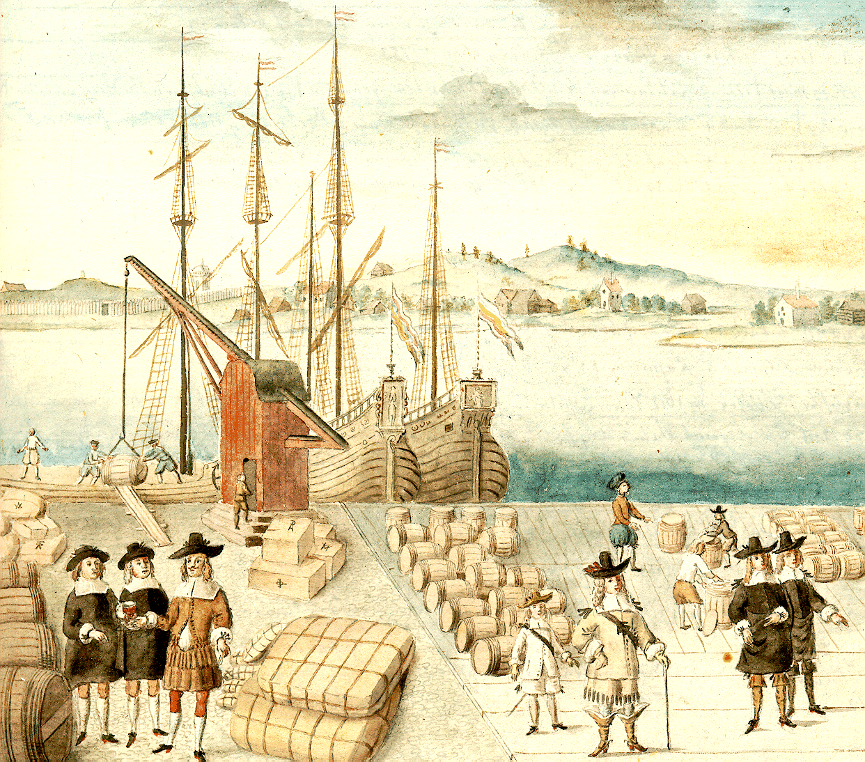 Scan from Johann Christoph Brotze's book Sammlung verschiedner Liefländischer Monumente. A better description (in German) may be availale on the source site (linked below) - the image name (except for m at the end) corresponds to ID on that site e.g. BM01129A means volume 1 (1. sējuma...), scan 129A. Feel welcome to replace this description with one describing content of this particular image